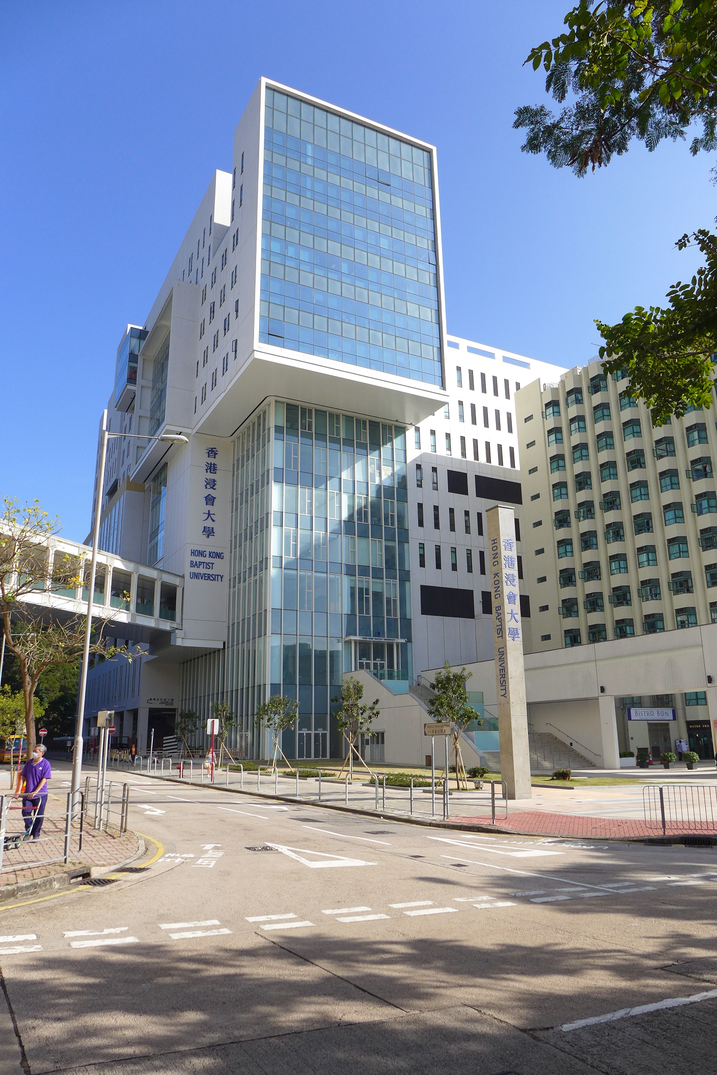 HKBU Academic and Administration Building